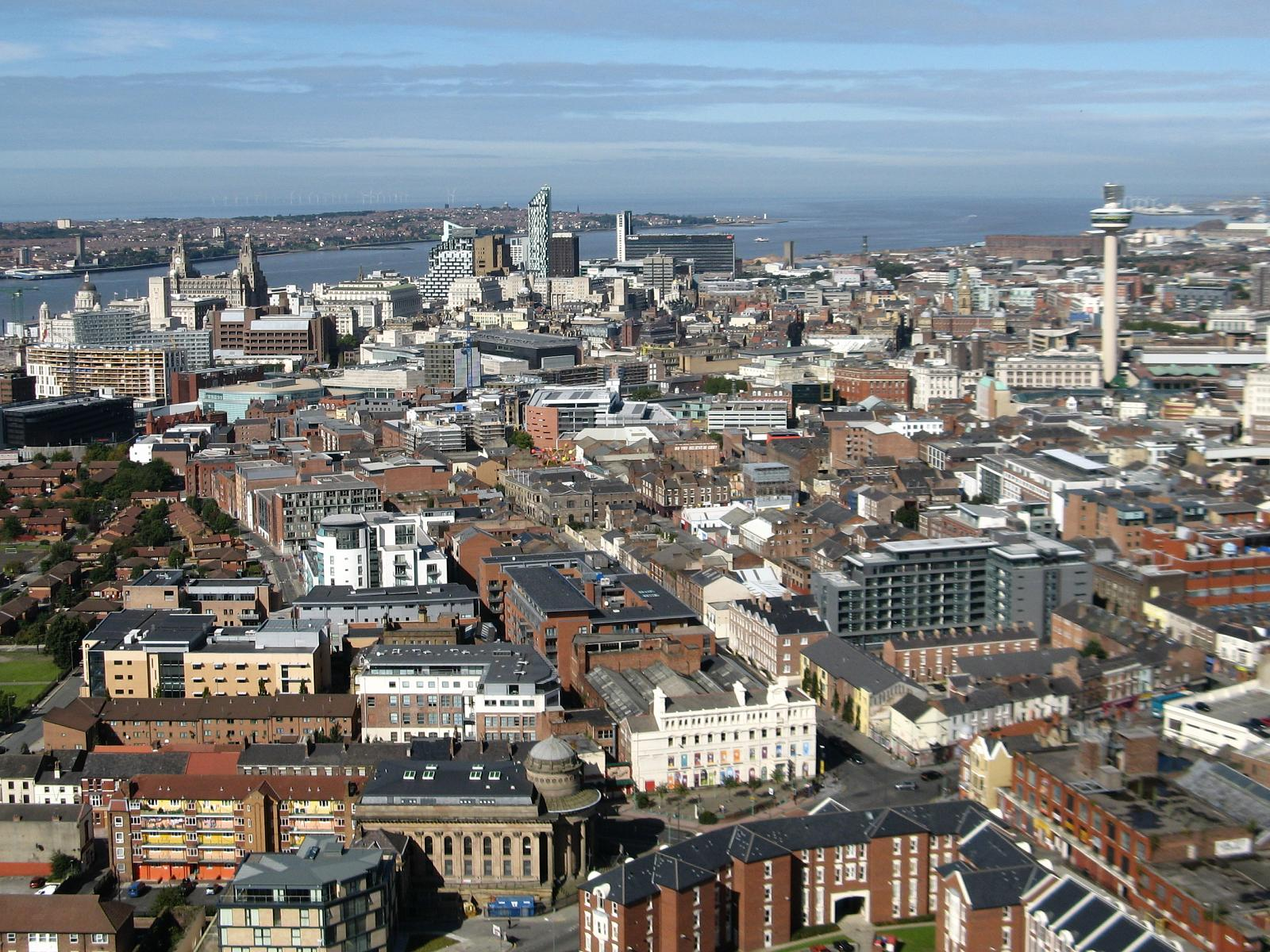 A view of Liverpool city centre viewed from the Anglican Cathedral